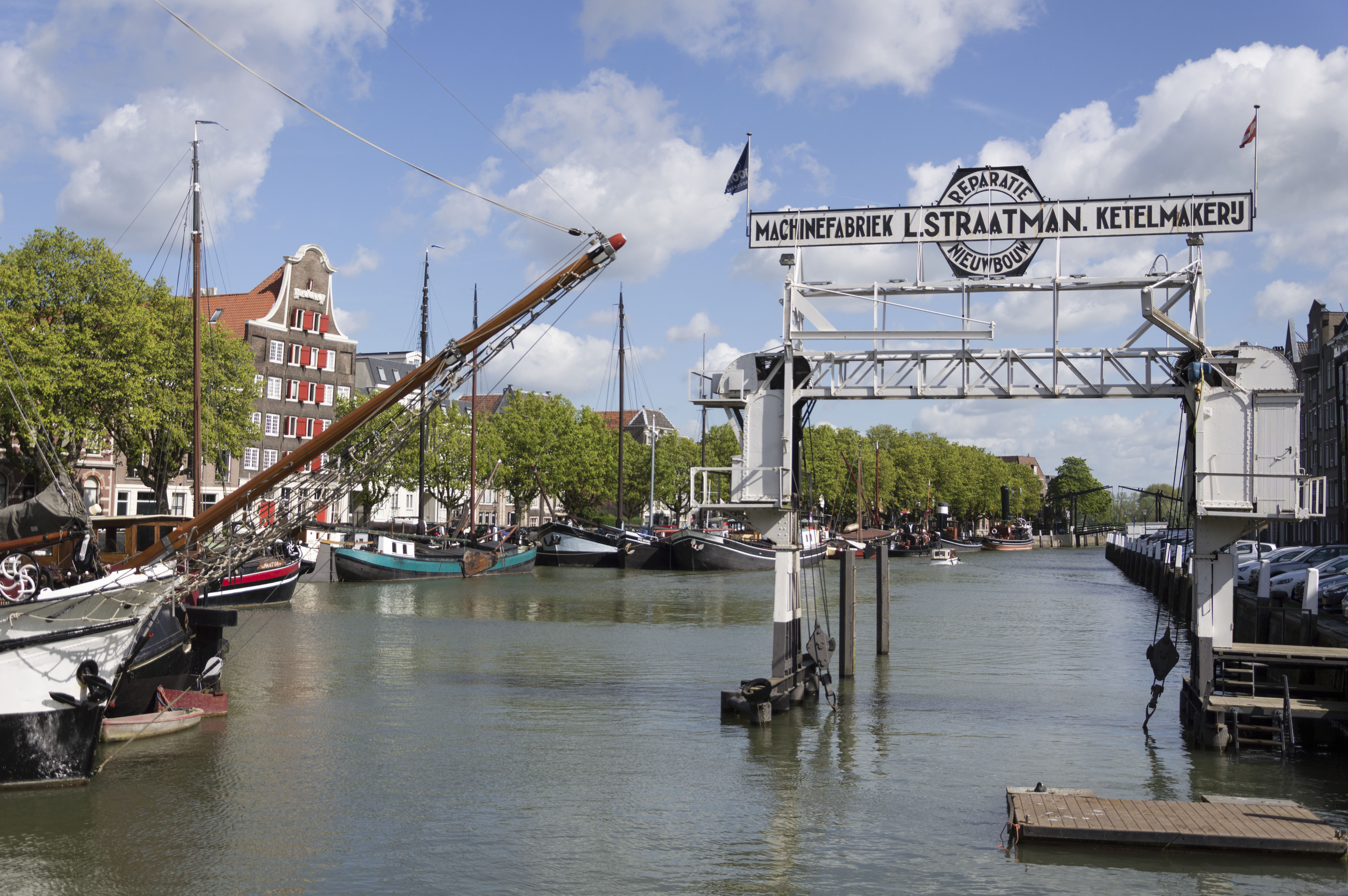 The last working ship elevator of the Netherlands.